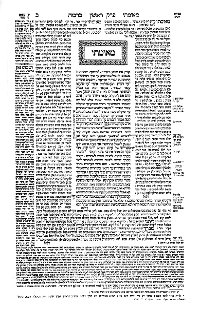 Babylonian Talmud Berochos 2a